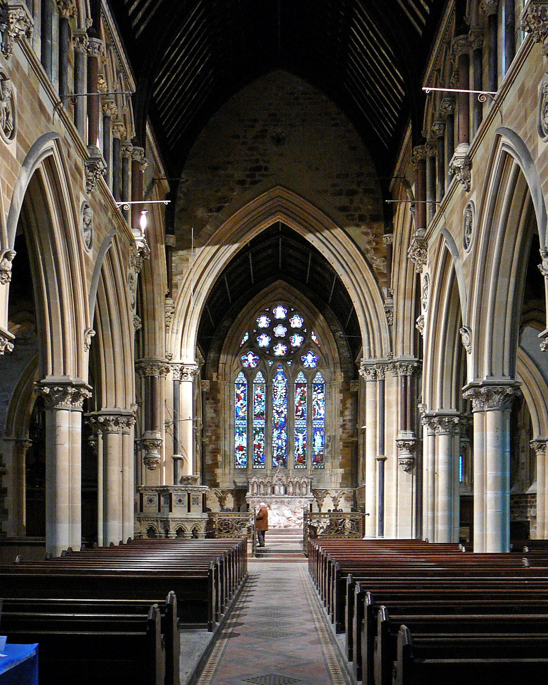 All Souls', Haley Hill, Halifax - Interior looking east